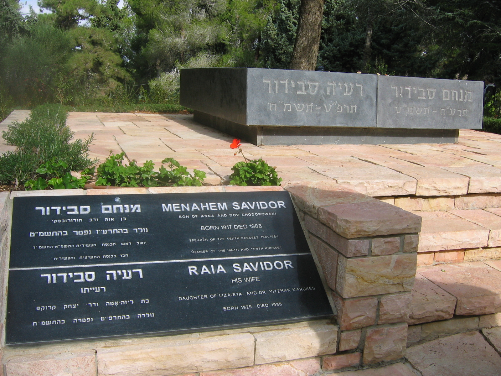 Grave of Menahem Savidor, speaker of the Knesset, and his wife קבר מנחם סבידור, יו"ר הכנסת ומנכ"ל רכבת ישראל, ואשתו, בחלקת גדולי האומה